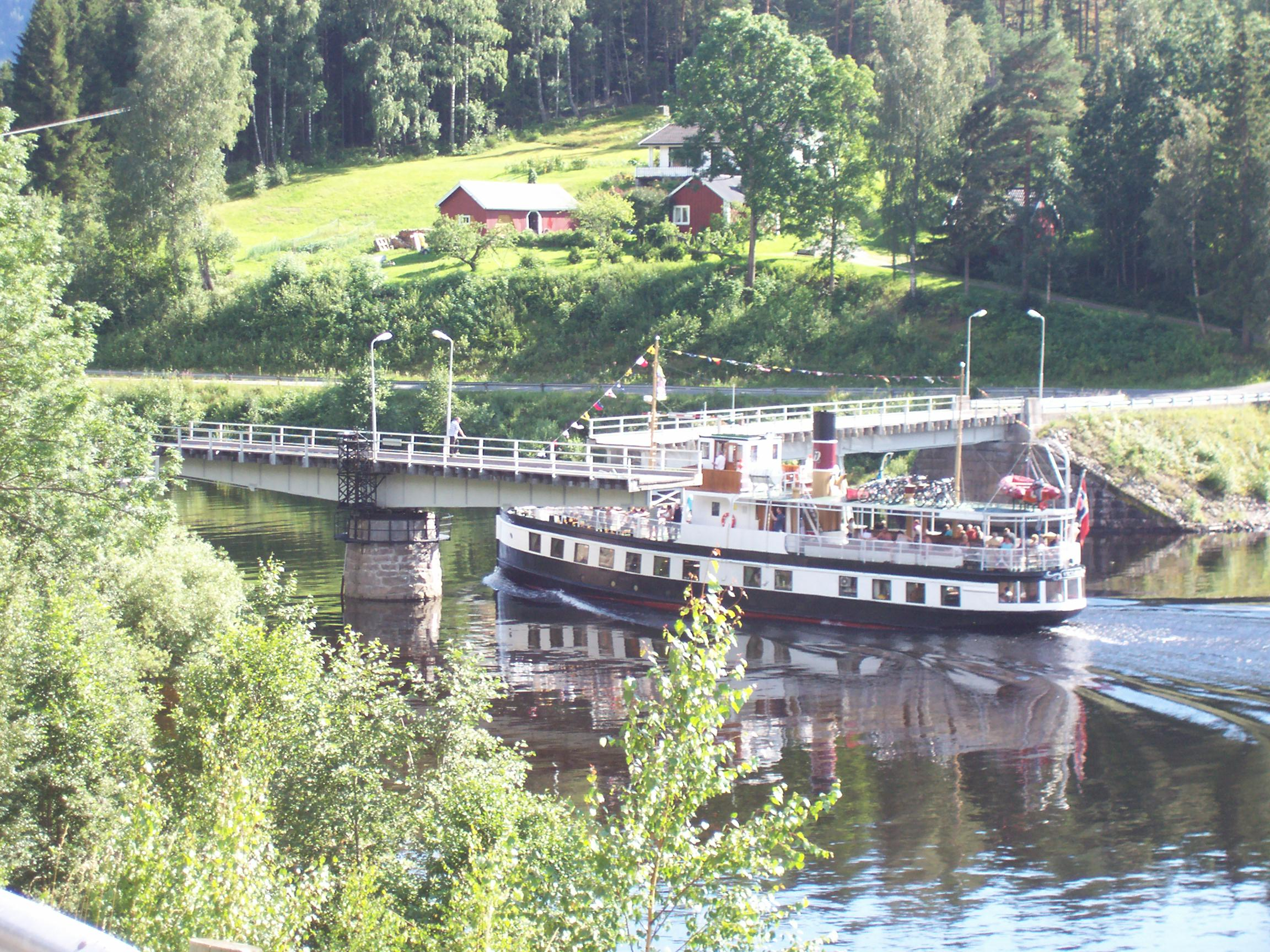 MV Victoria, a tourist boat in the Telemark Canal, at Sundkilen bru near Kviteseid. Pic 2 of 3